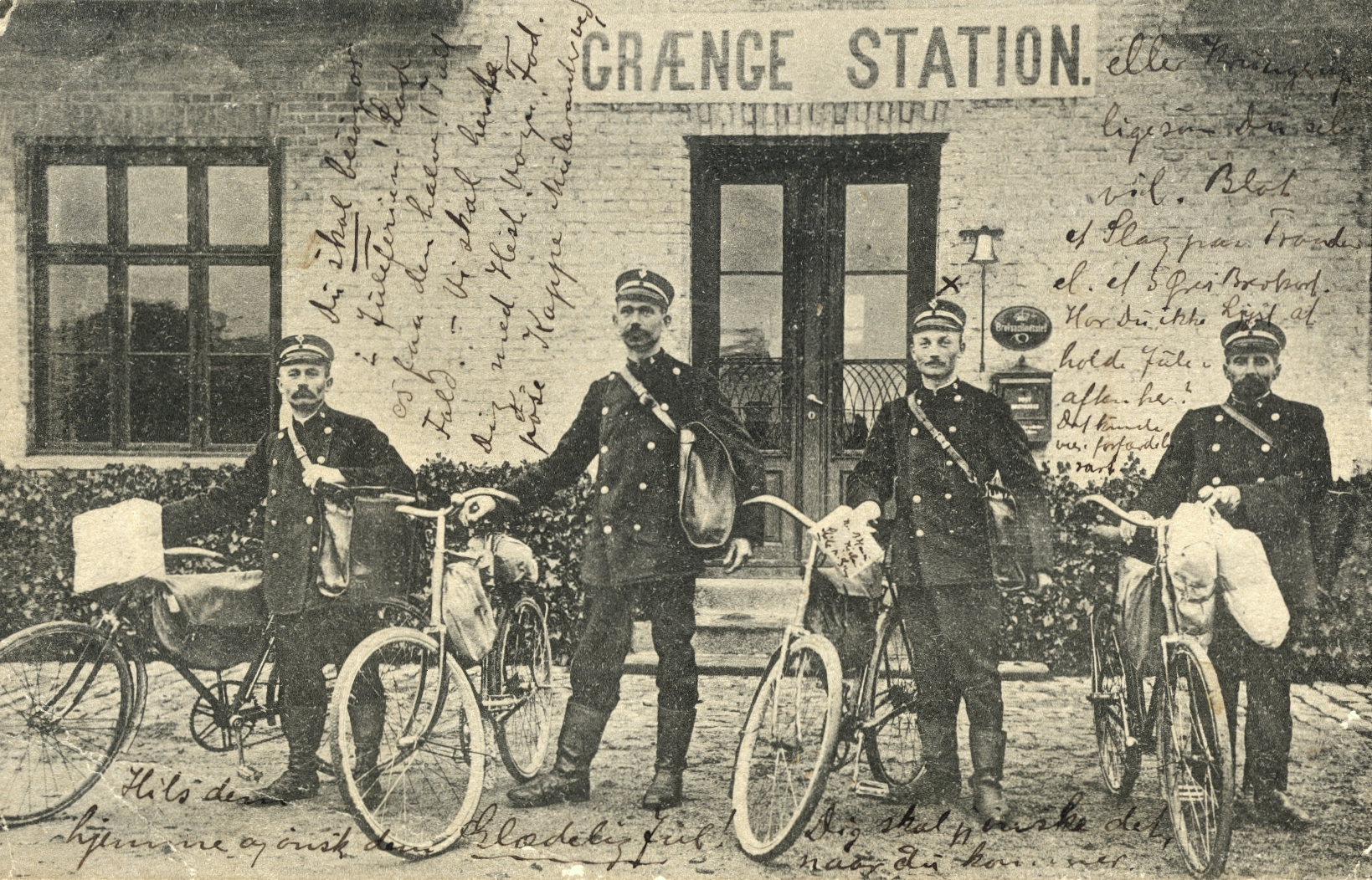 Grænge railway station, Lolland, Denmark